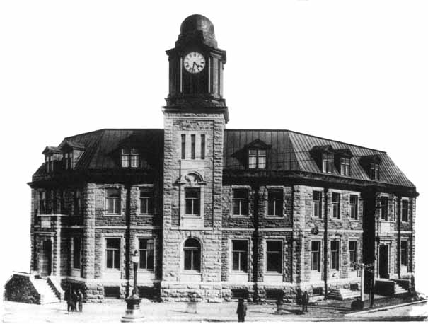 Federal Building & Post Office -1915 - Sudbury, Ontario, Canada.